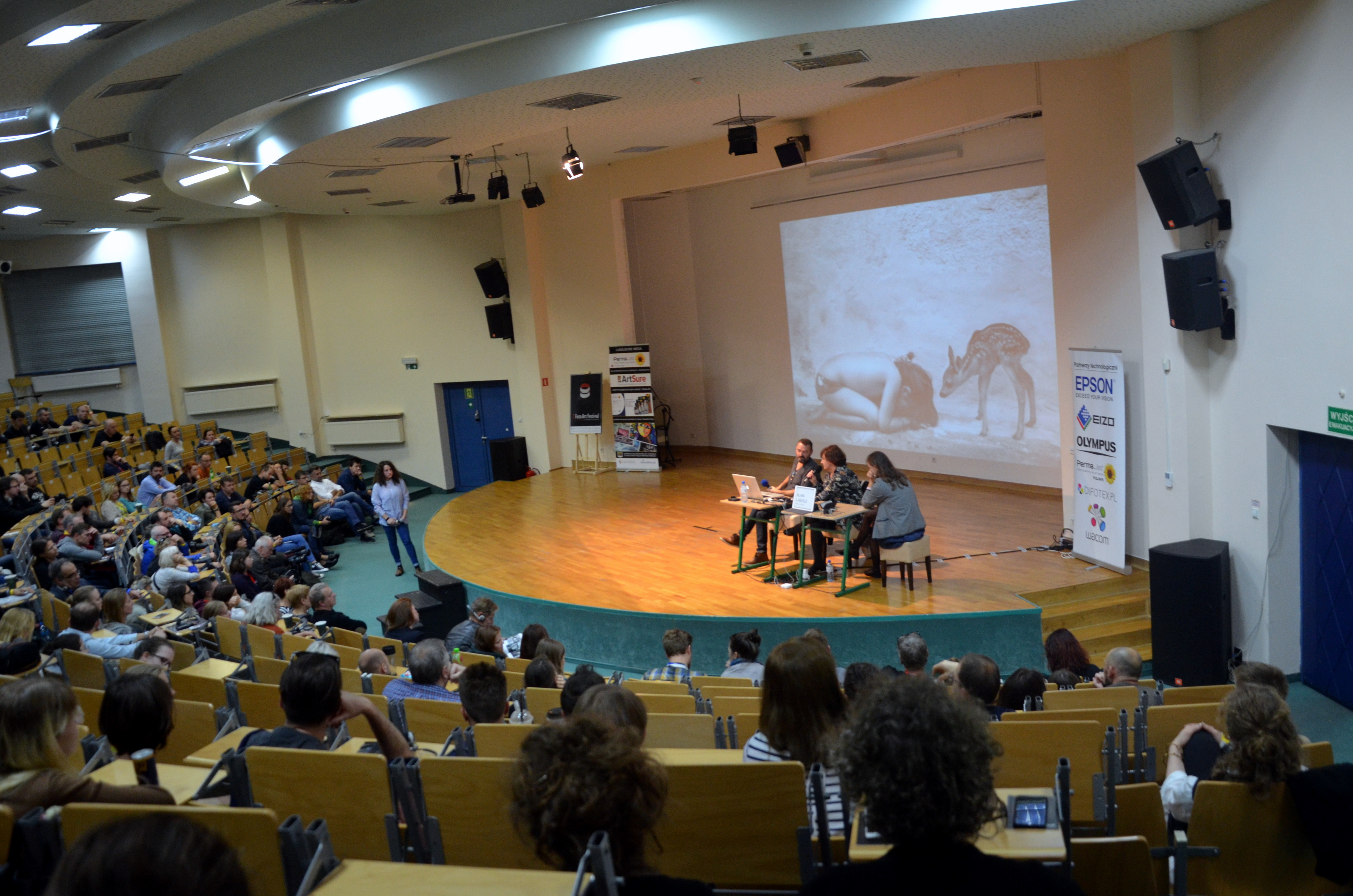 Alain Laboile